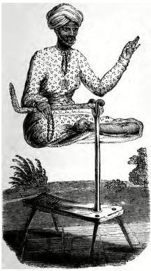 Lithograph or engraving of a Brahmin performing the aerial suspension illusion in India, around 1830.